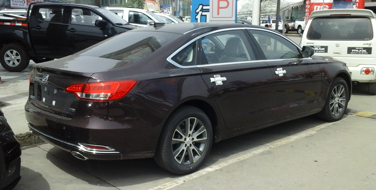 Zotye Z700 photographed in Xi'an, Shaanxi province, China.